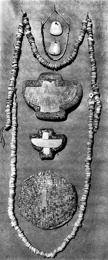 Pre-Columbian Hohokam culture art — turquoise mosaics. Found in 1925 in Casa Grande Ruins National Monument (Arizona).